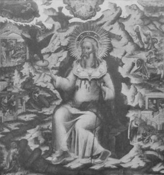 Church of Elijah the Prophet in Yaroslavl. 1915.